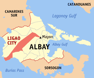 Locator map of Ligao in Albay, Philippines.